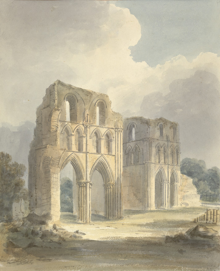 View of one of the ruined transepts at Roche Abbey near Malty in Yorkshire. Watercolour by the British artist John Buckler. Courtesy of the British Library.